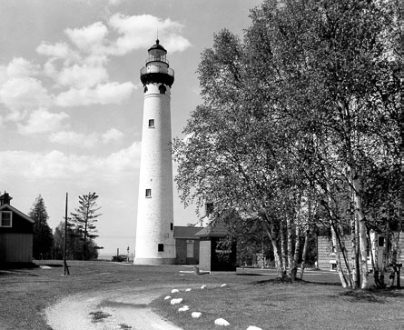 New Presque Isle Lighthouse on Lake Huron in Michigan, United States.